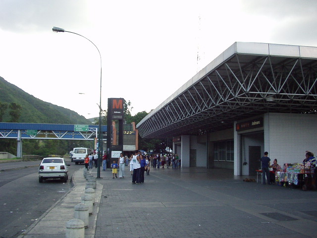 Antimano Station of the Caracas Metro. Caracas, Venezuela.